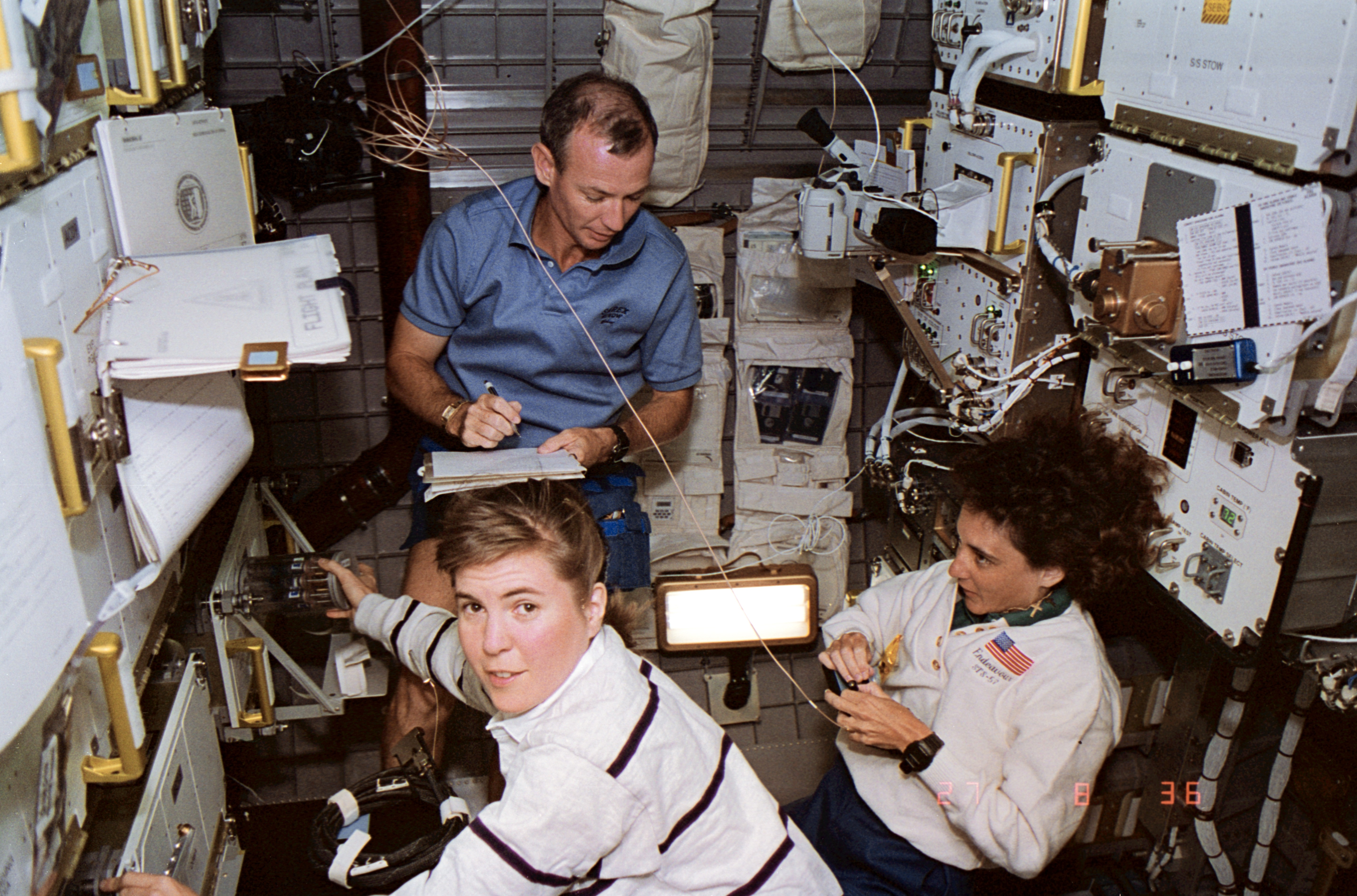 High angle shot inside the SPACEHAB module. Janice Voss handles a Commercial Generic Bioprocessing Apparatus group activation pack incubator at the aft lockers in the foreground while Nancy Sherlock handles a small piece of equipment and Pilot Brian Duffy makes notations on a checklist in the background.